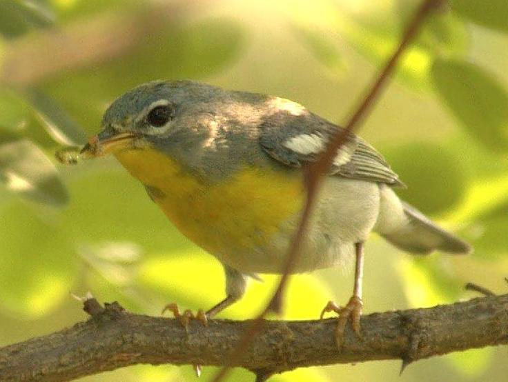 In Maryland, USA